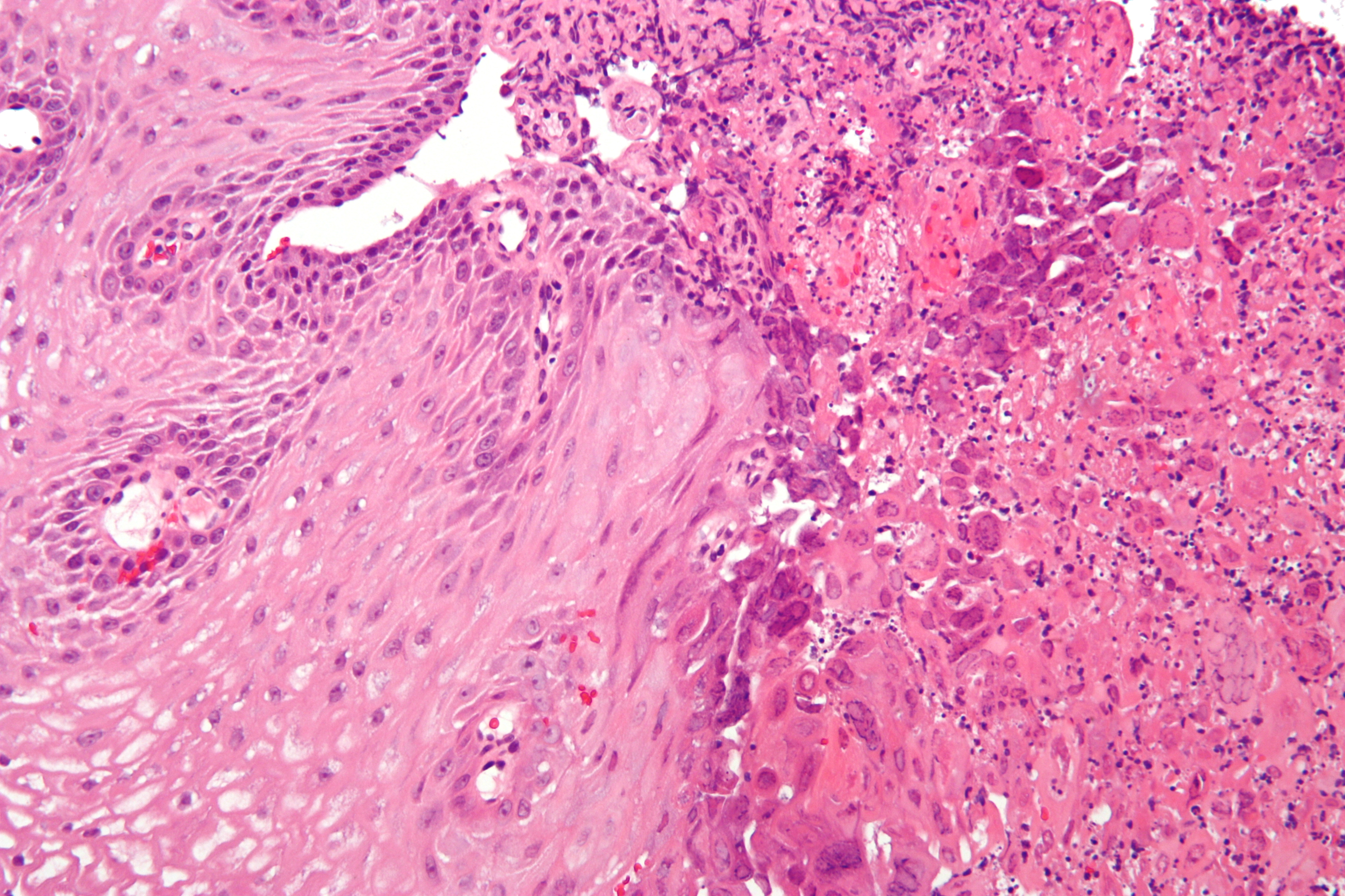 High magnification micrograph of herpes eosphagitis. H&E stain. Cytologic changes of HSV (3 Ms): Margination (of chromatin). Multinucleation. Molding (of nuclei). Related images Intermed. mag. Very high mag.